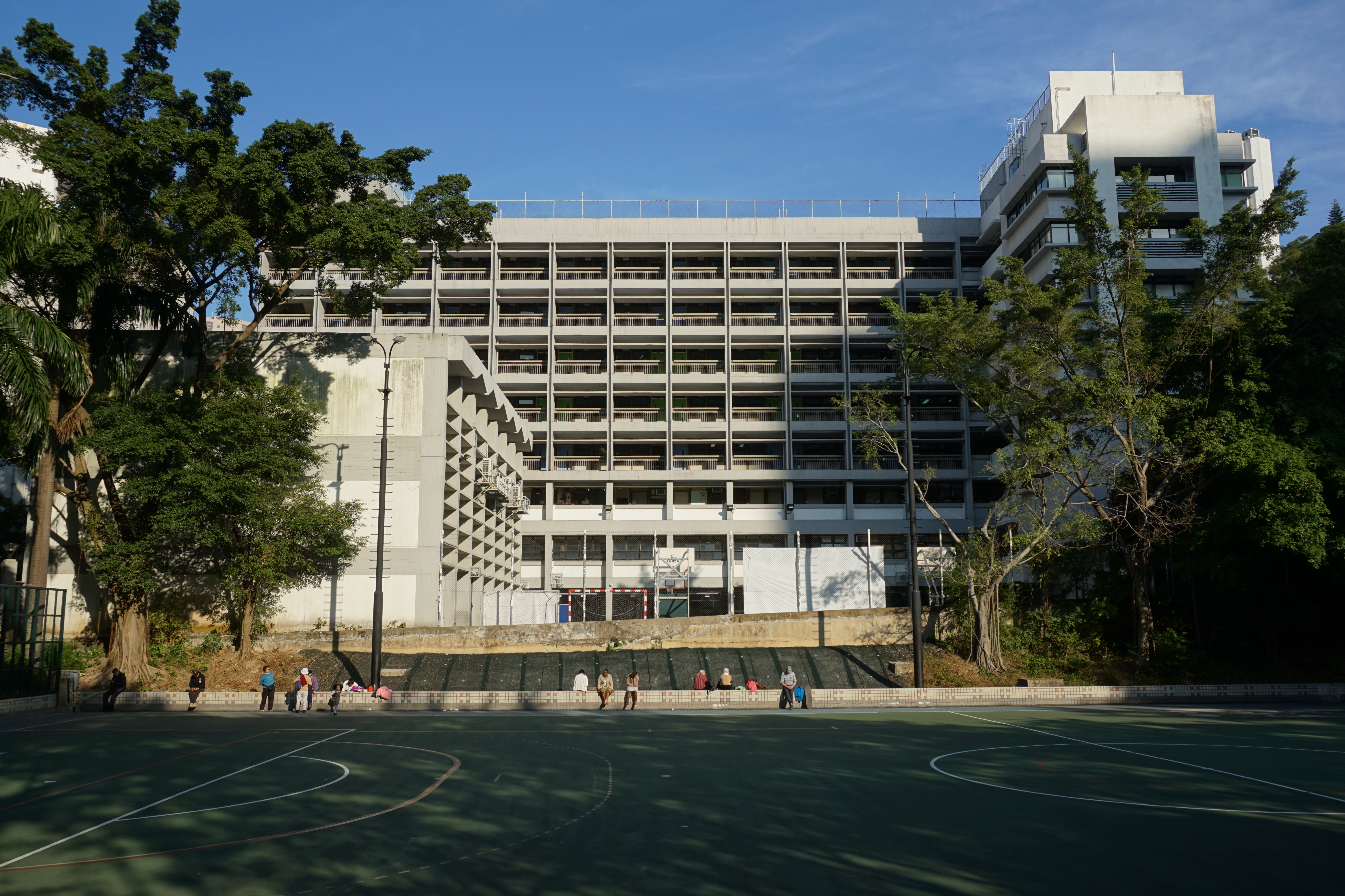 Saint Joseph's Primary School in Wan Chai, Hong Kong.